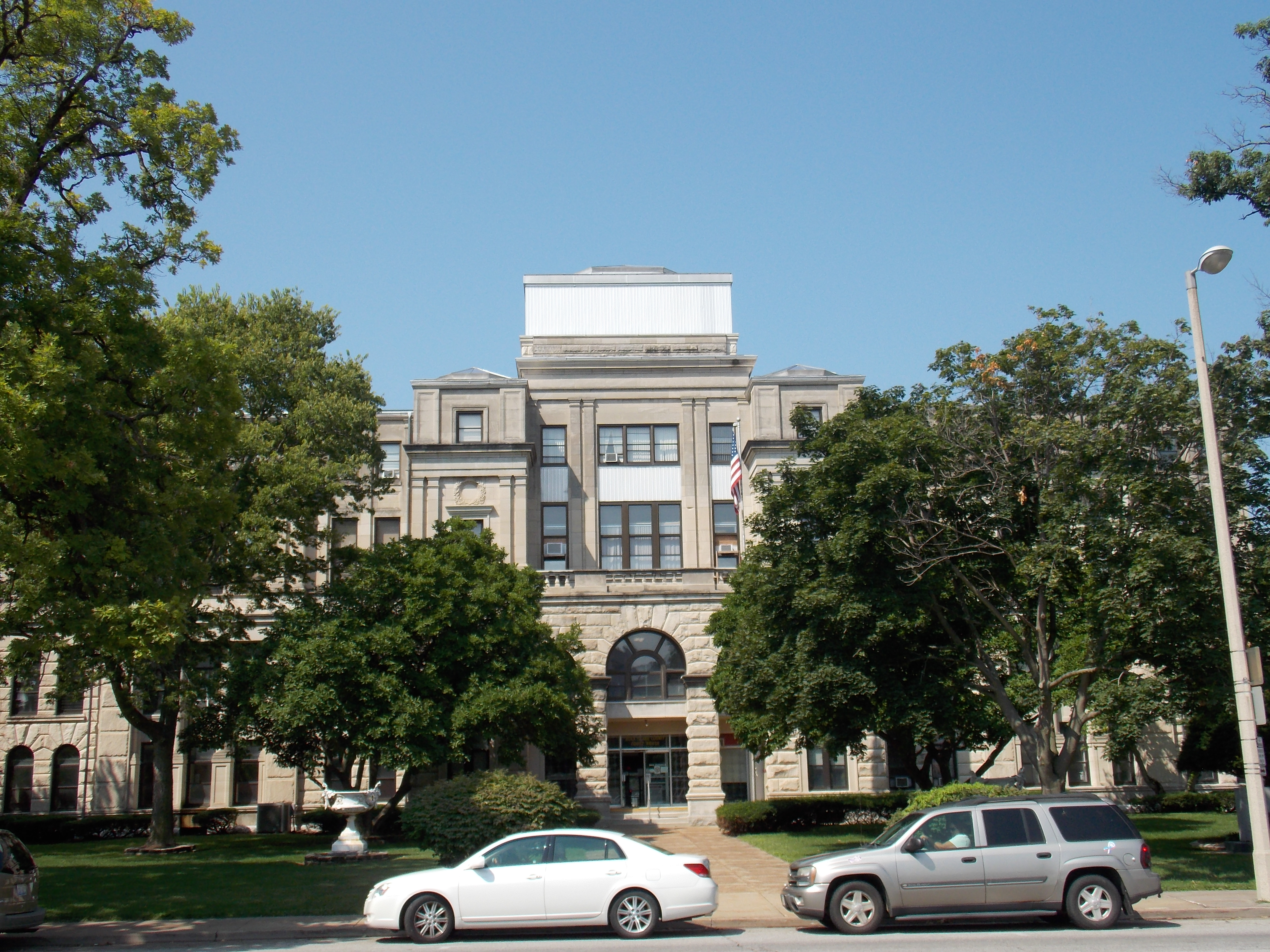 Rock Island County Courthouse in downtown Rock Island, Illinois.